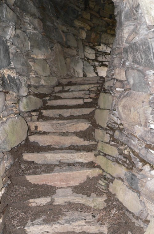 Stairs within the walls of Dun Troddan, one of the Glenelg Brochs in Scotland